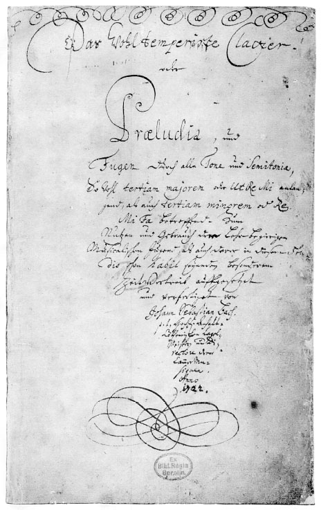 Title page of "Das Wohltemperirte Clavier" (Book 1, 1722)